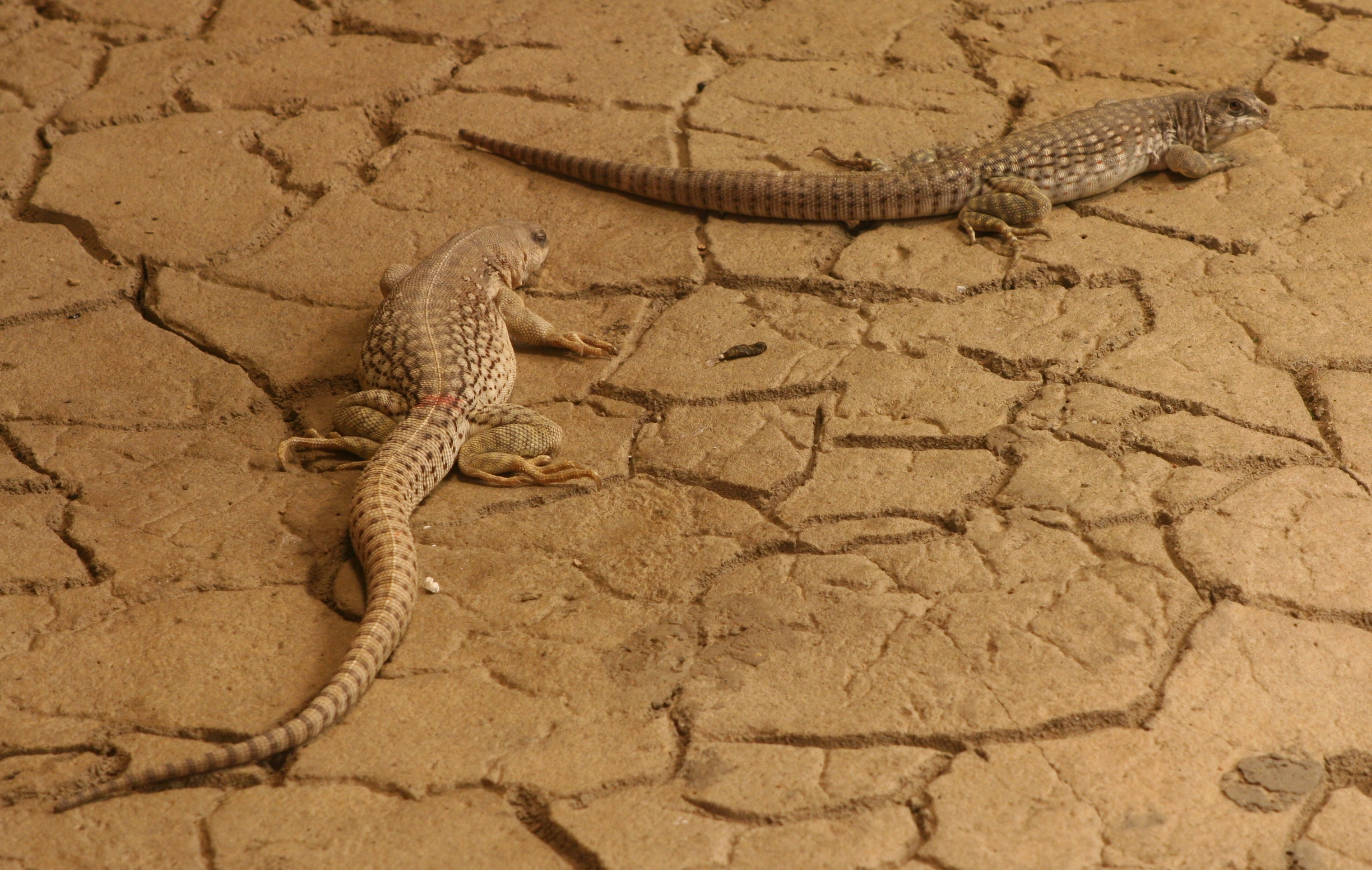 Desert iguana (Dipsosaurus dorsalis) at the Buffalo Zoo.